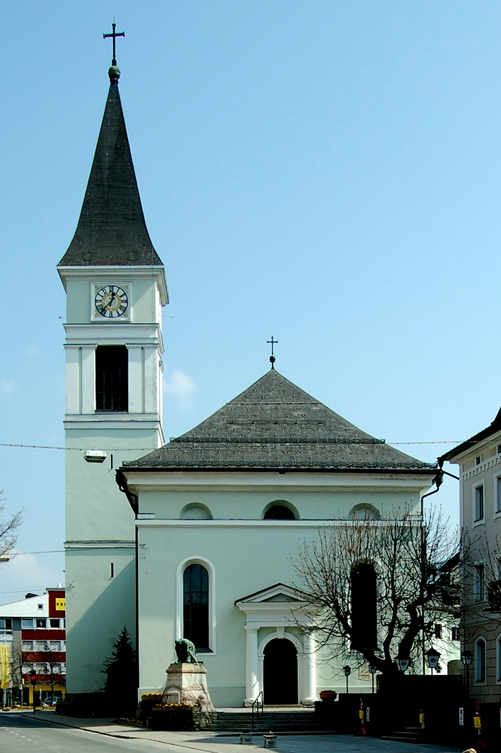 Saint Lawrence Church, Wörgl, Tirol, Austria